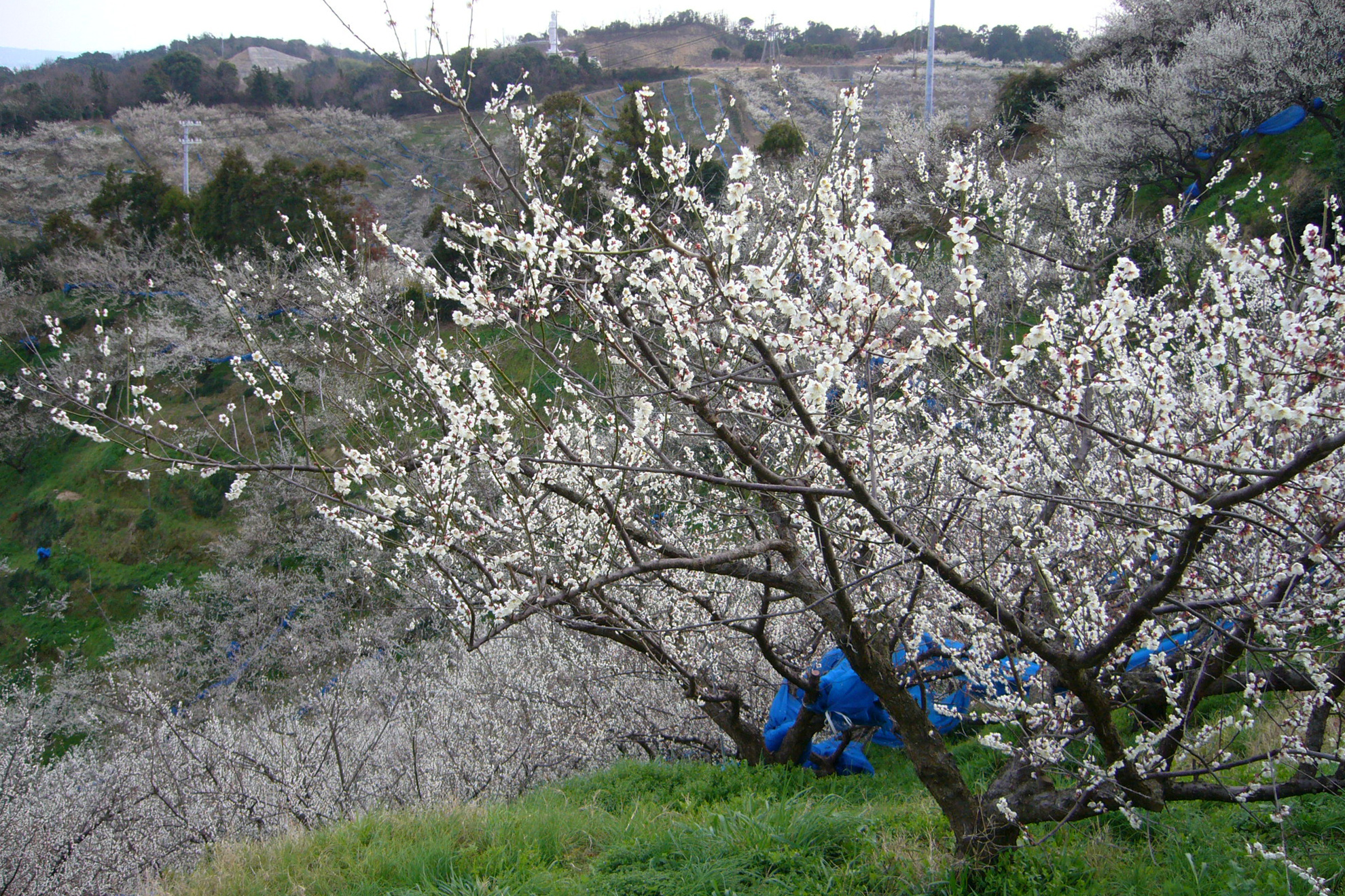 Senri Bairin, Minabe, Wakayama prefecture, Japan